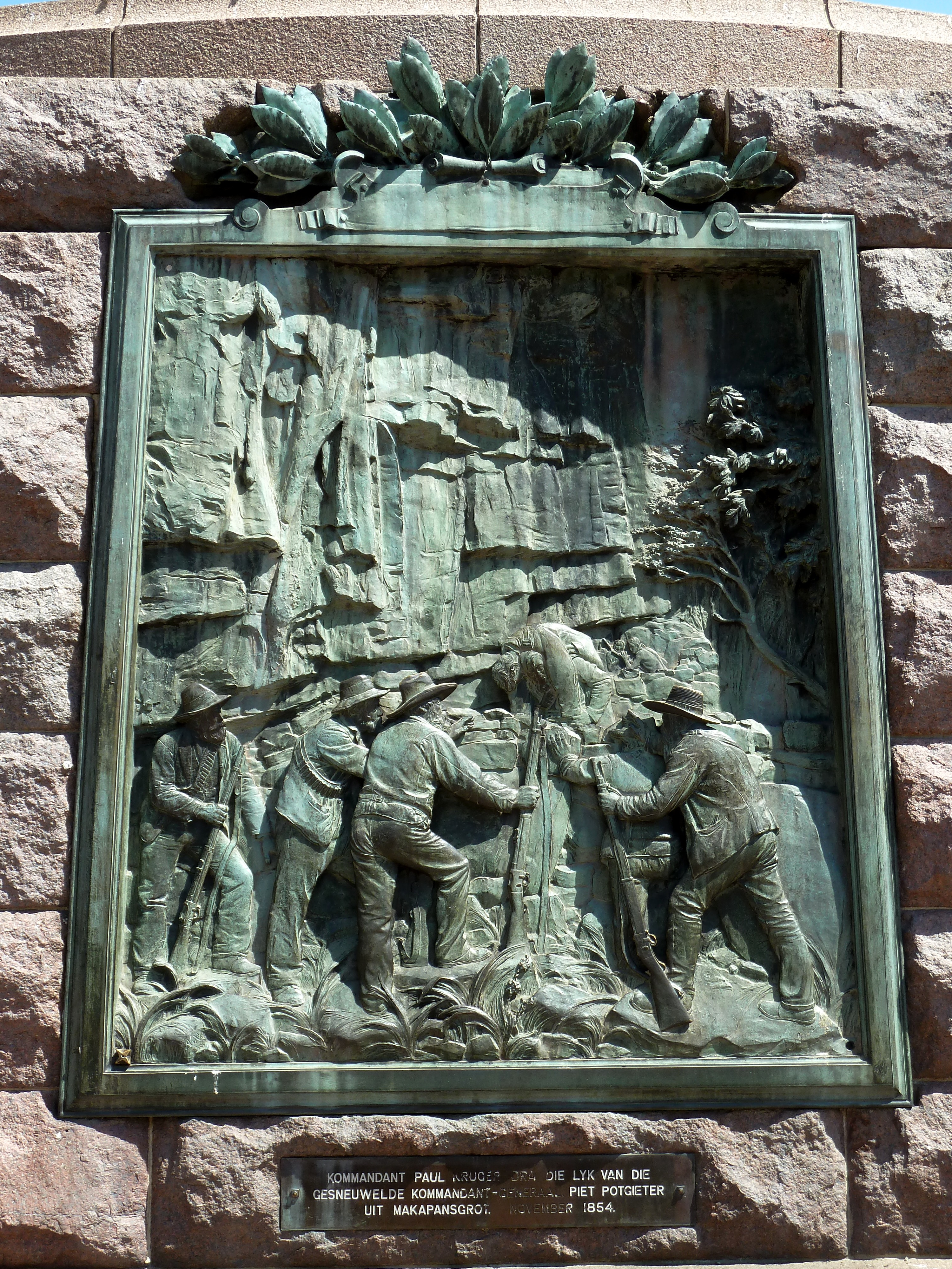 East panel of the Kruger statue on Church square, Pretoria. It depicts Commandant Paul Kruger rescuing the body of Commandant-general Piet Potgieter at Makapan's cave in the current Limpopo province.